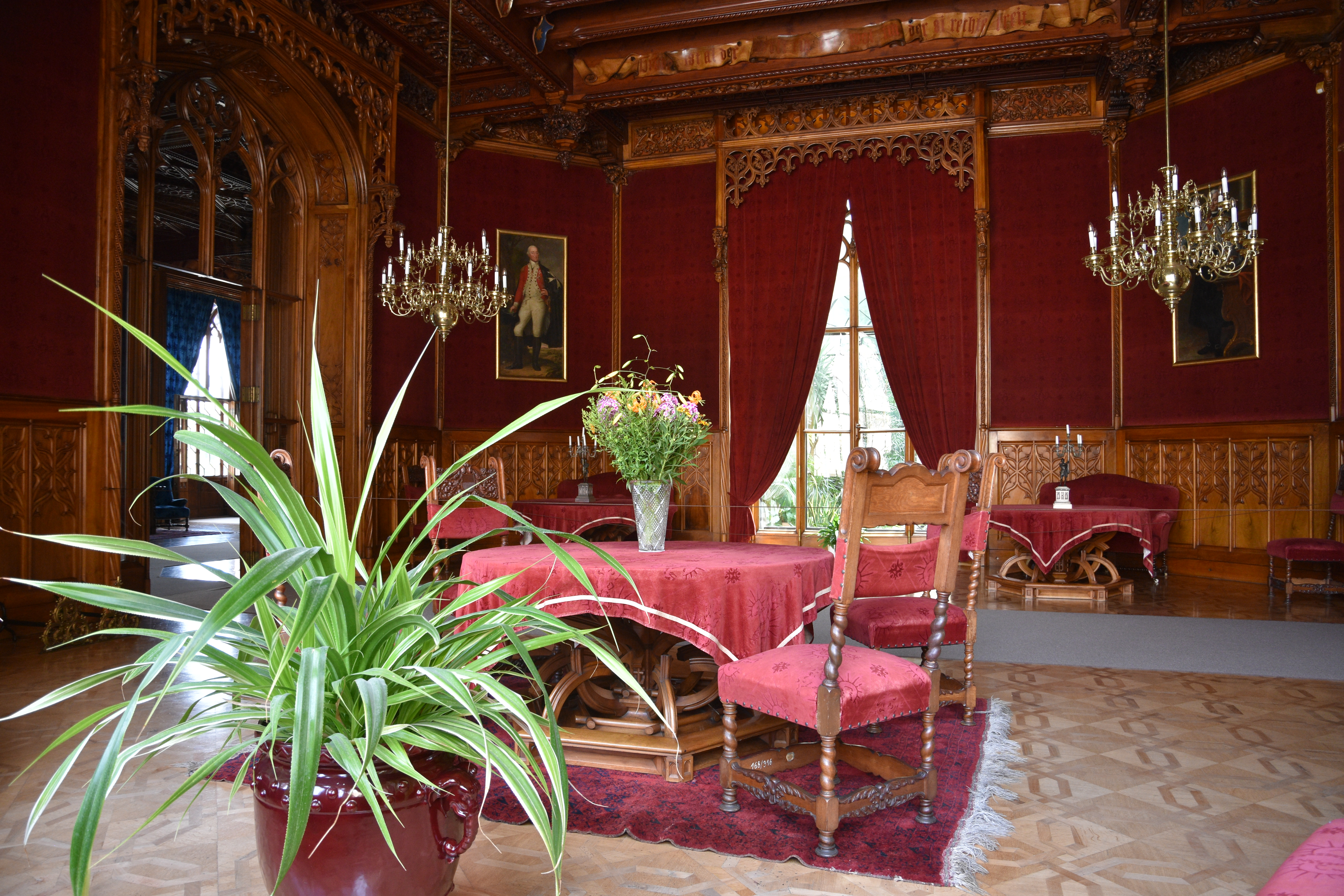 Lednice Castle interior